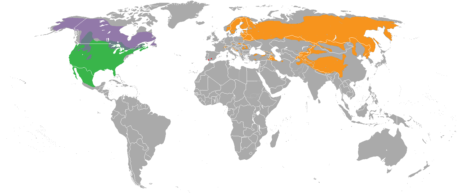 The range of the Lynx Eurasian lynx (Lynx lynx) Canada lynx (Lynx canadensis) Iberian lynx (Lynx pardinus) Bobcat (Lynx rufus)